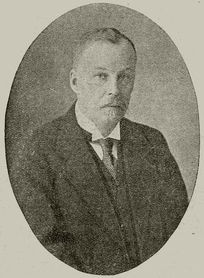 Portrait photo of Alexei Davidov